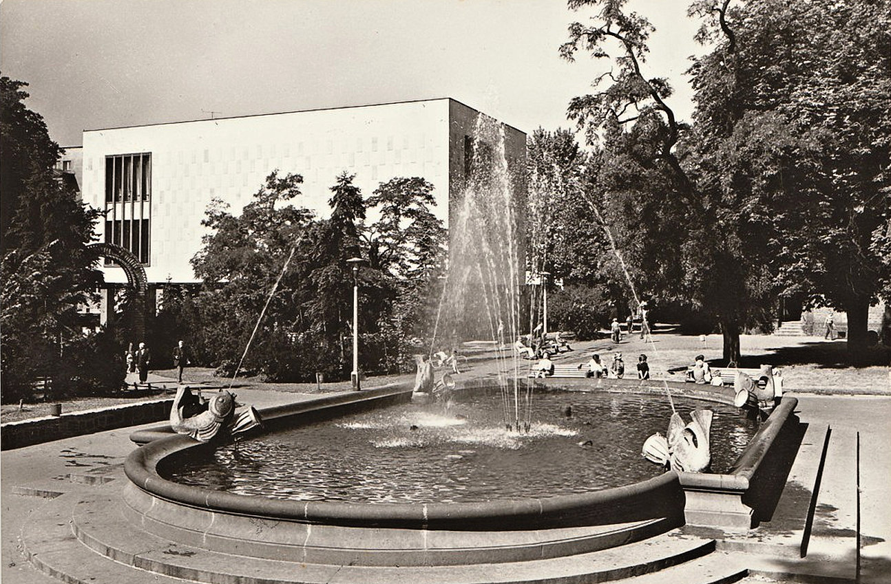 Fountain from Park Casimir Great Bydgoscz